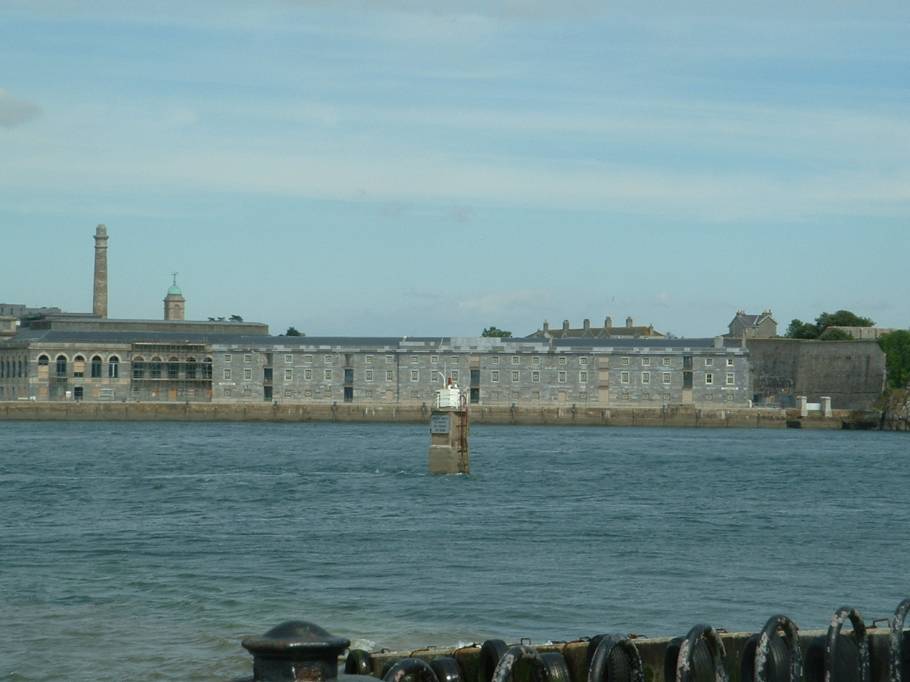 The Royal William Victualling Yard in Plymouth, England.